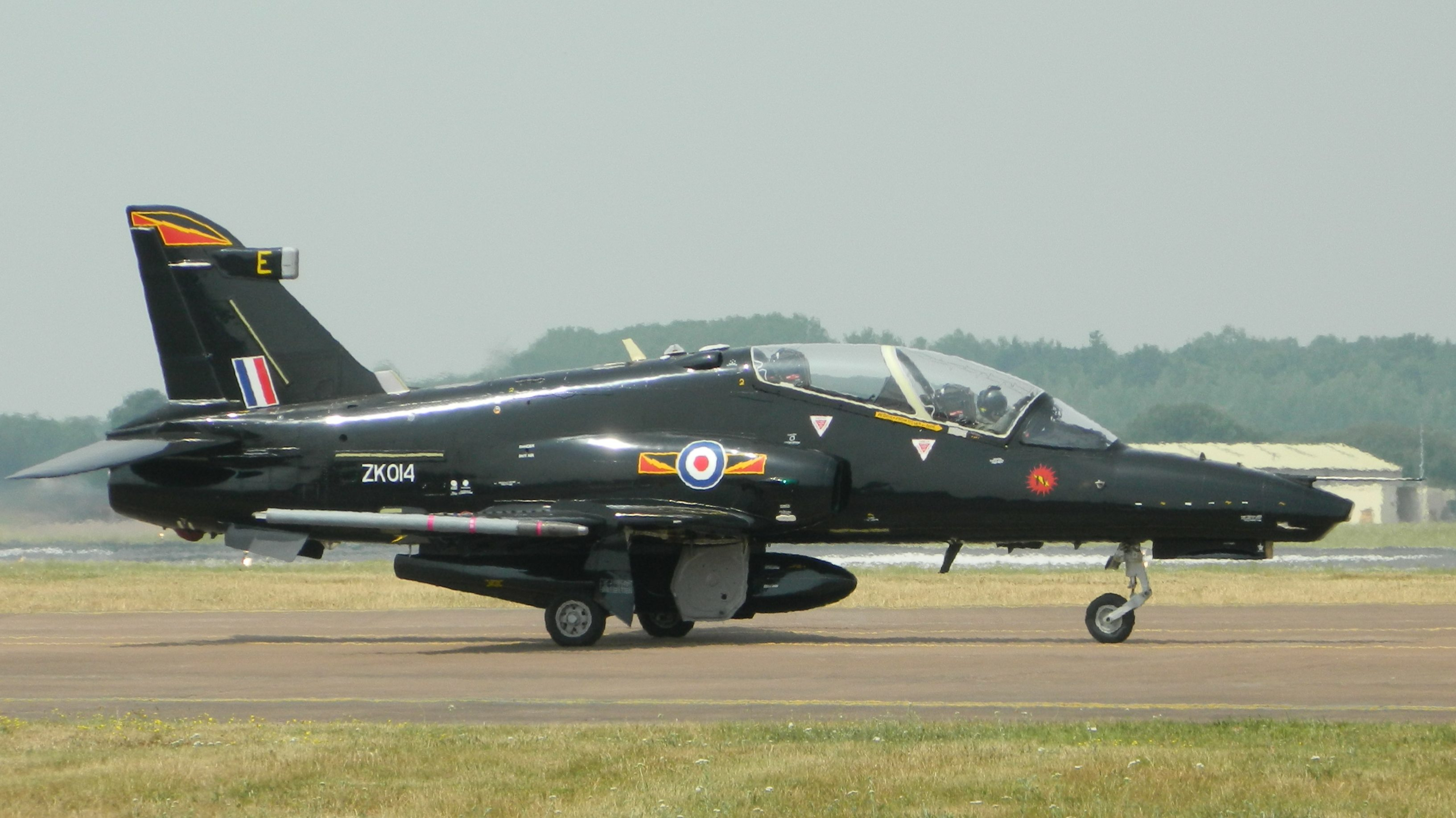 Royal Air Force BAE Systems Hawk T2 serial number ZK014 departs RAF Fairford on the Royal International Air Tattoo departure day Monday 22 July 2013.